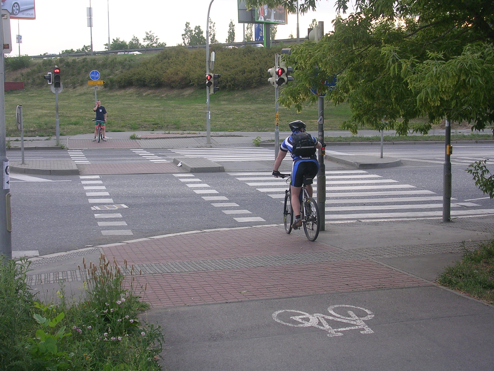 Krč, Prague, the Czech Republic.